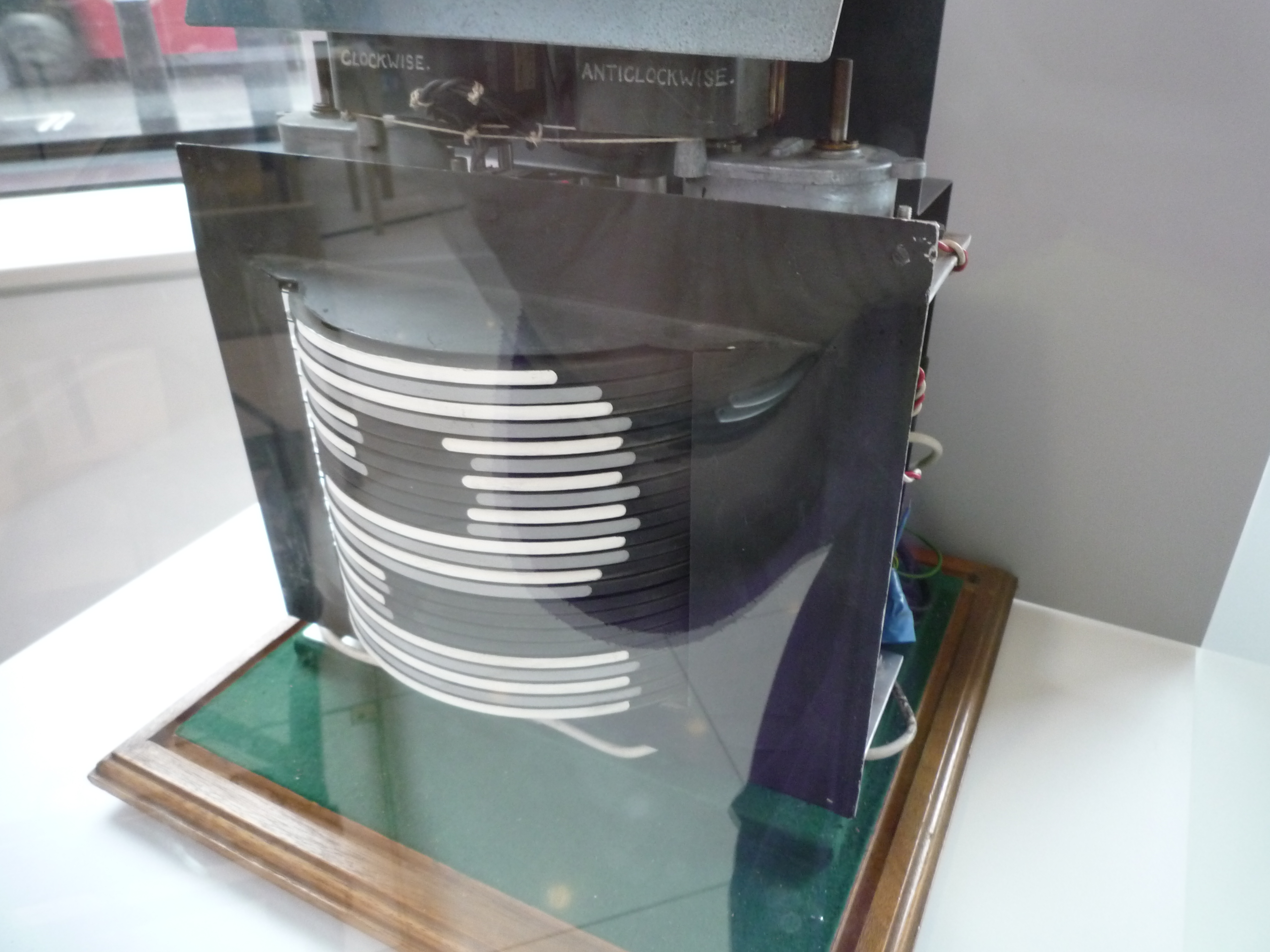 Photograph of BBC Two 'Striped' ident mechanism showing front face and motor drives Other information Poor quality due to reflections, hence not uploaded to Commons at present.